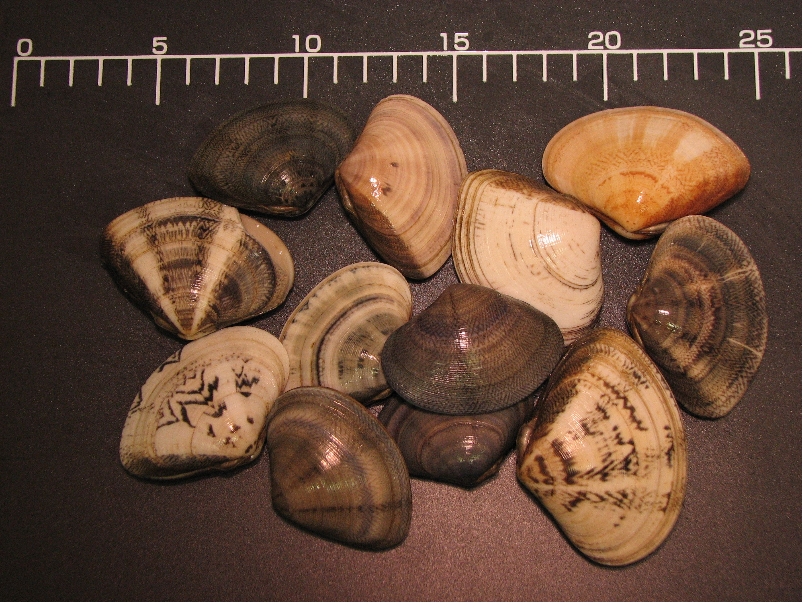 Gomphina melanegis